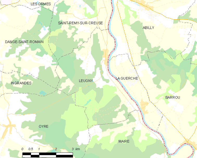 Map of French municipality Leugny